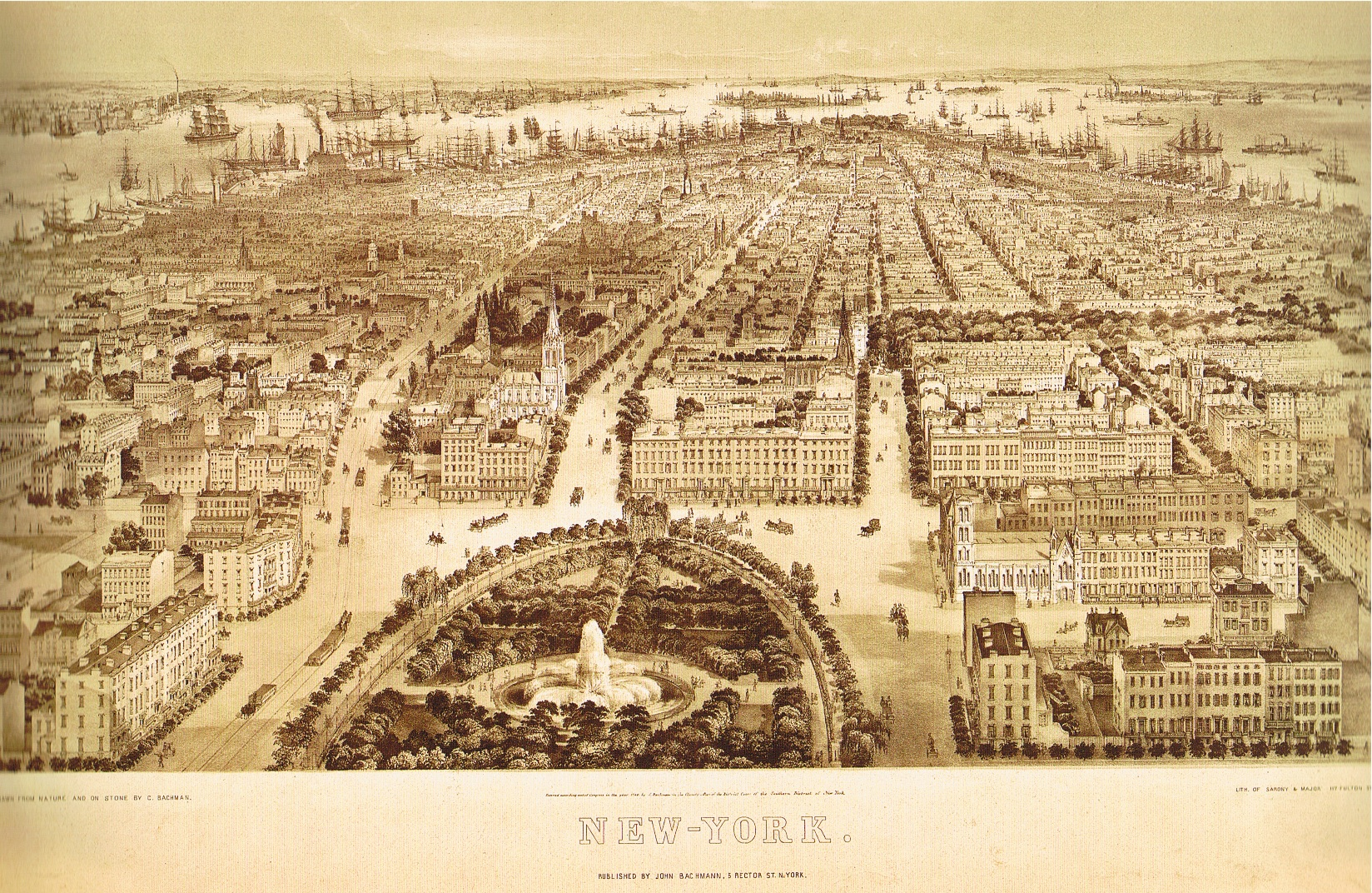 New York, incomplete scan (image larger, about between A4 and A3, than the scanner), central part; "published by John Bachmann, 5 Rector St. N. York"